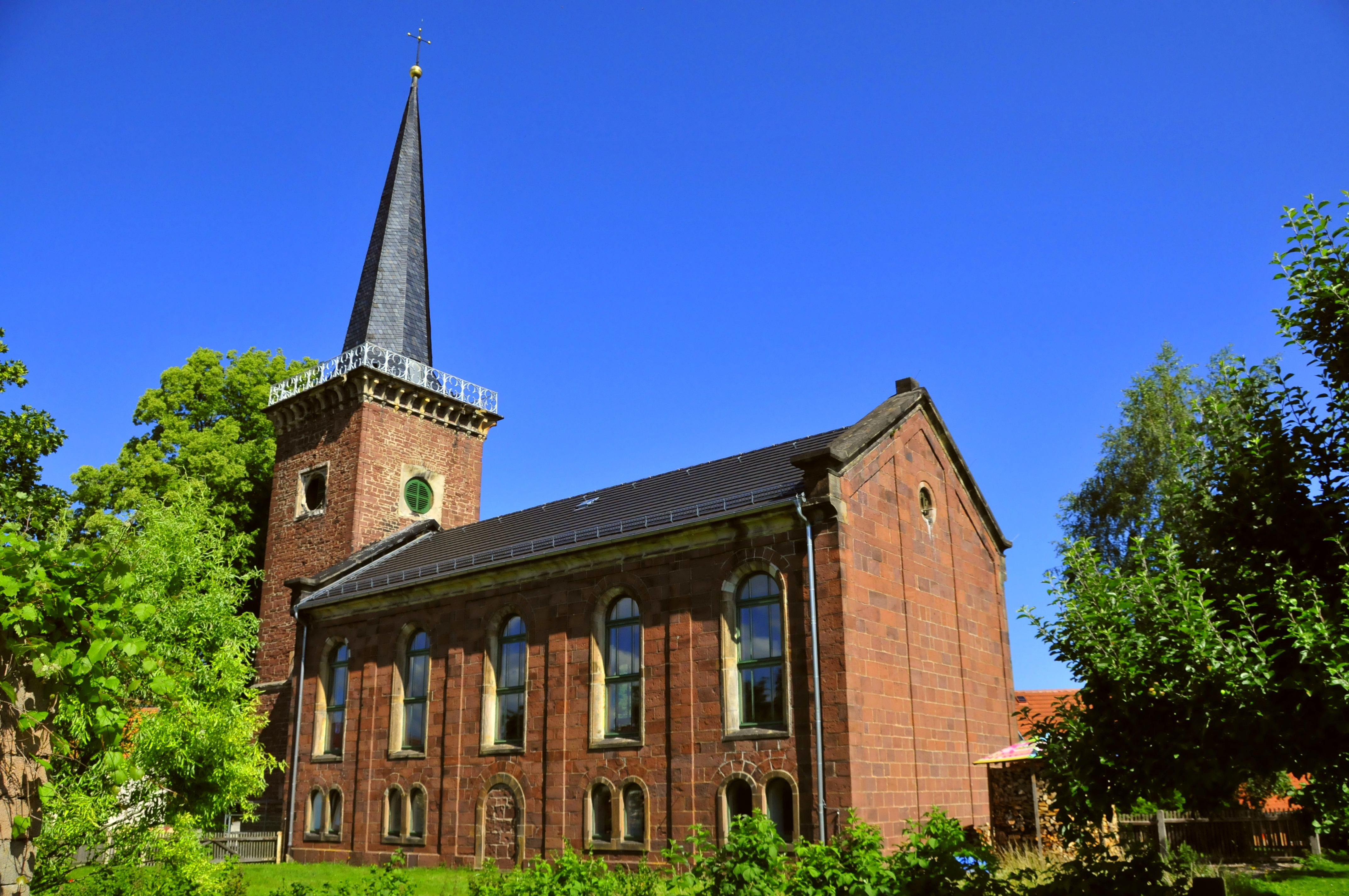 Church in Herrenhof (Thuringia)